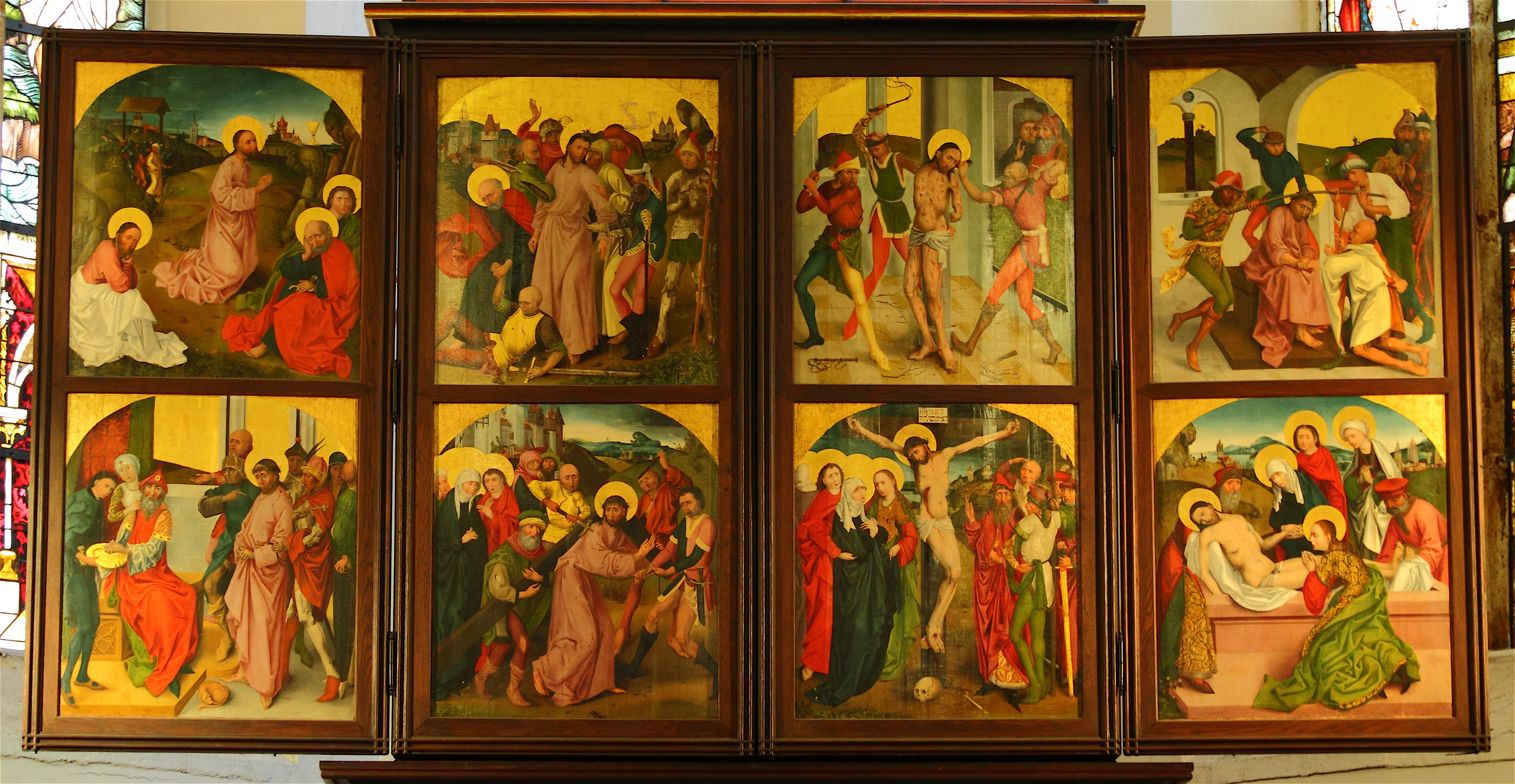 The Pauliner Altar in St. Thomas Church, Leipzig.